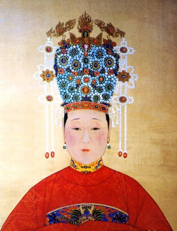 The Official Imperial Portrait of Ming Dynasty's Empress